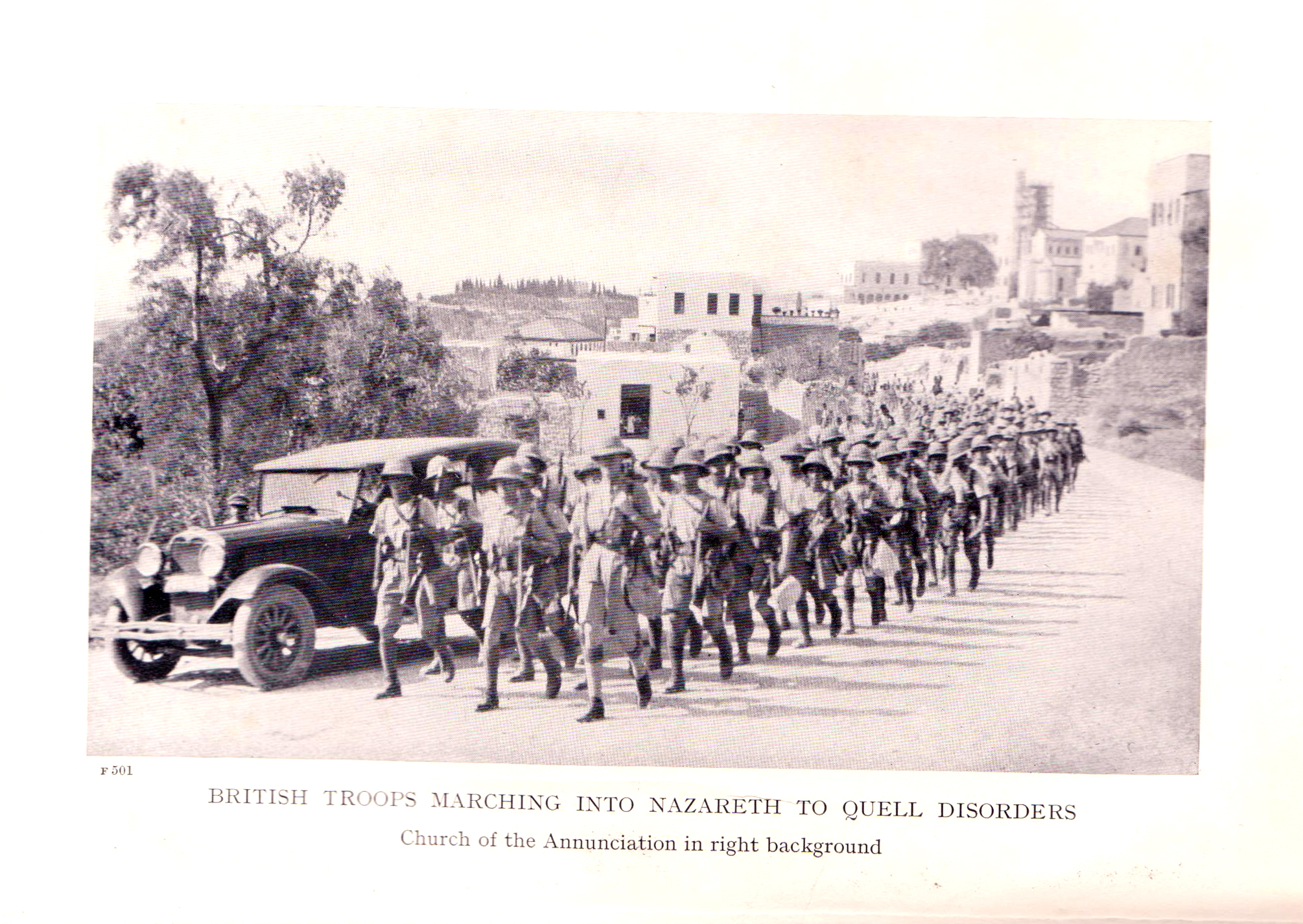 British troops entering Nazareth, 1936